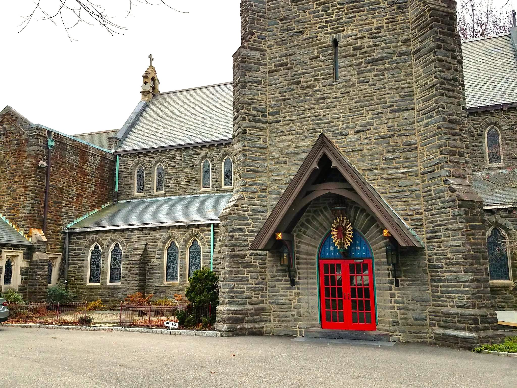 North Door, Church of the Good Shepherd (Rosemont, Pennsylvania)